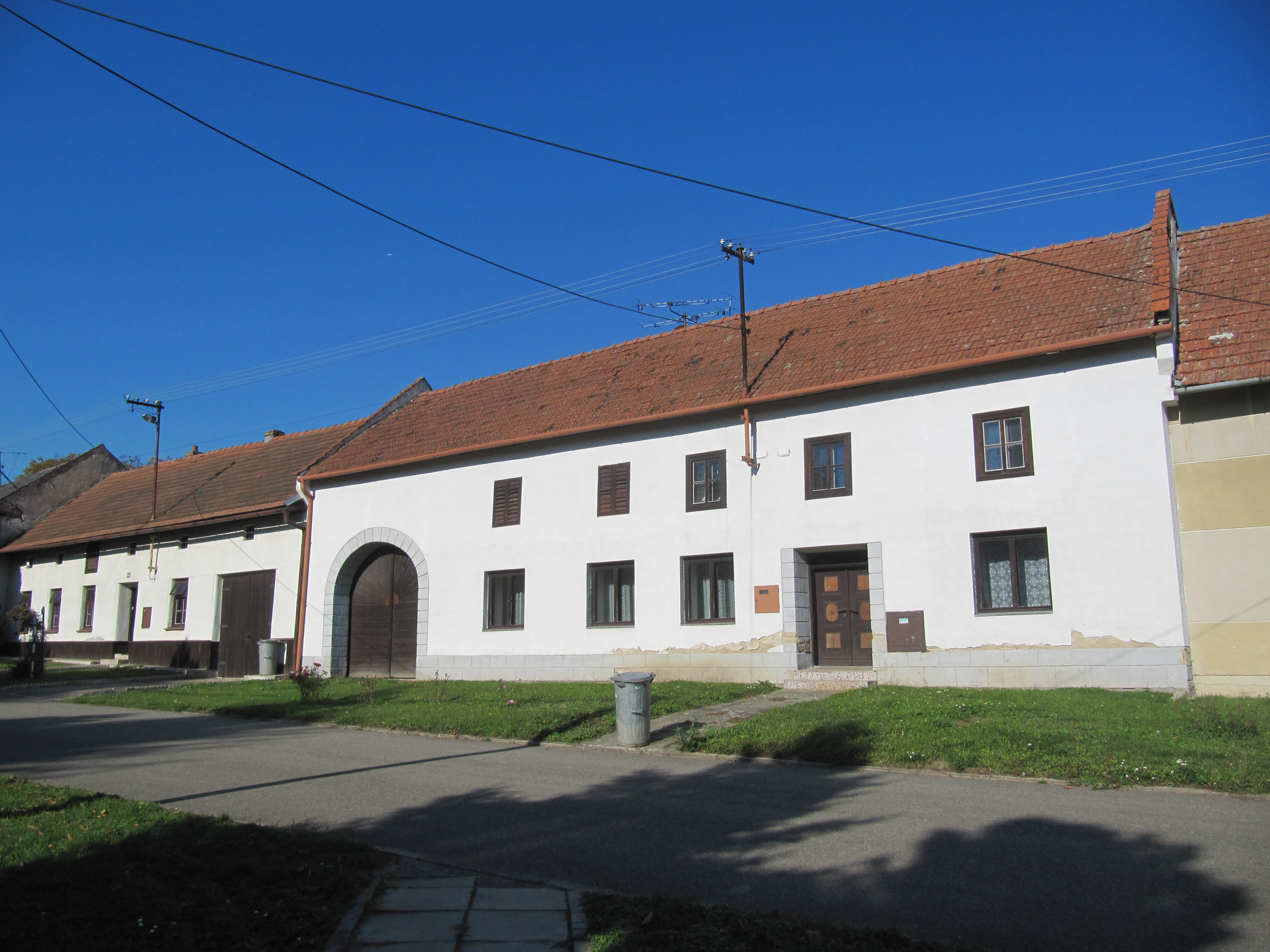 Nítkovice in Kroměříž District, Czech Republic. House No. 24.